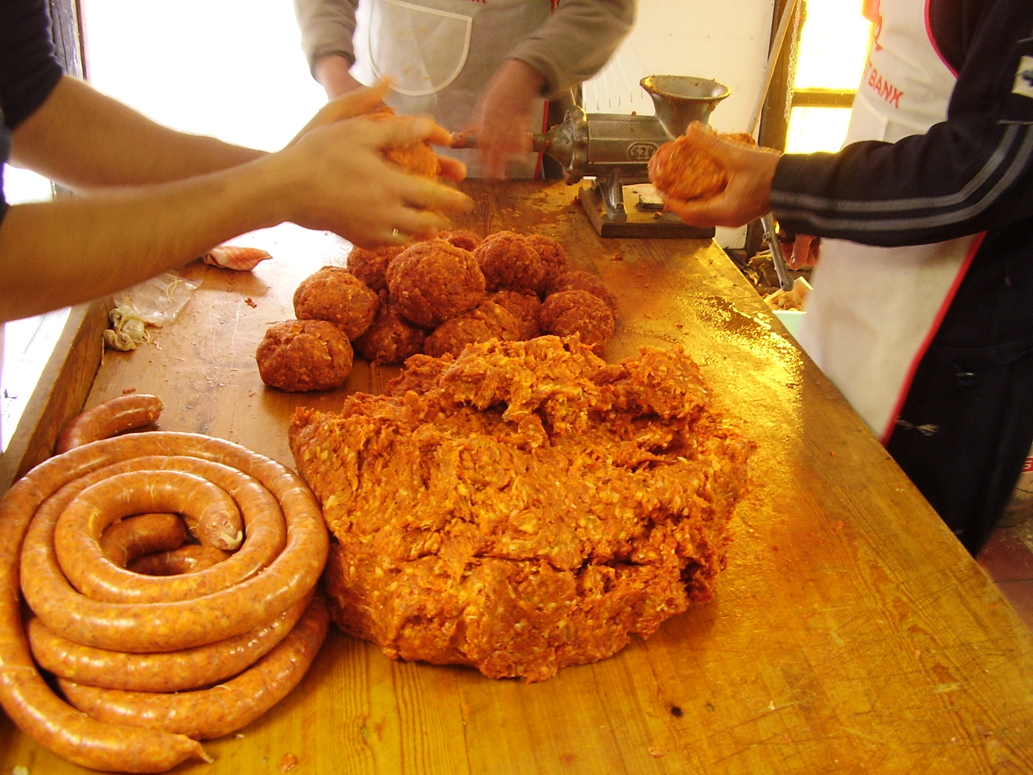 Ordinary sausage making of csabai in Békéscsaba, Hungary